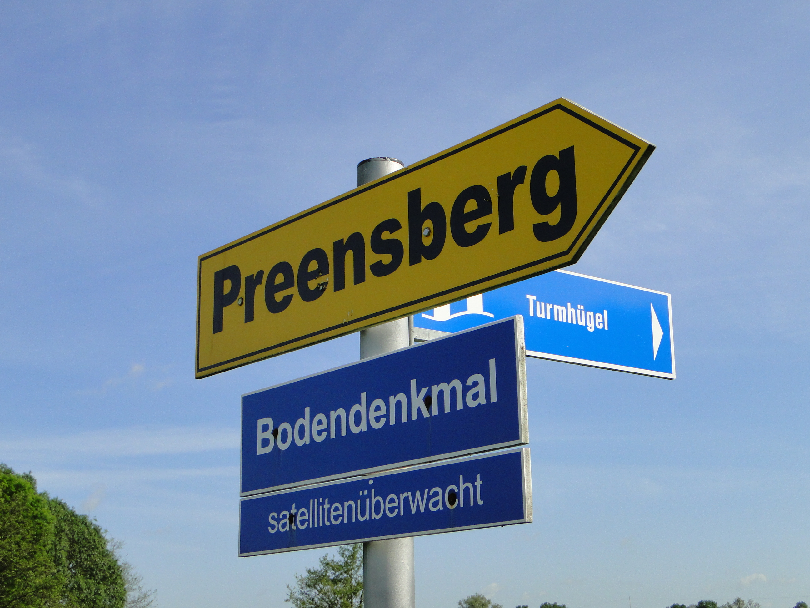 Abandoned village Preensberg, district Nordwestmecklenburg Mecklenburg-Vorpommern, Germany